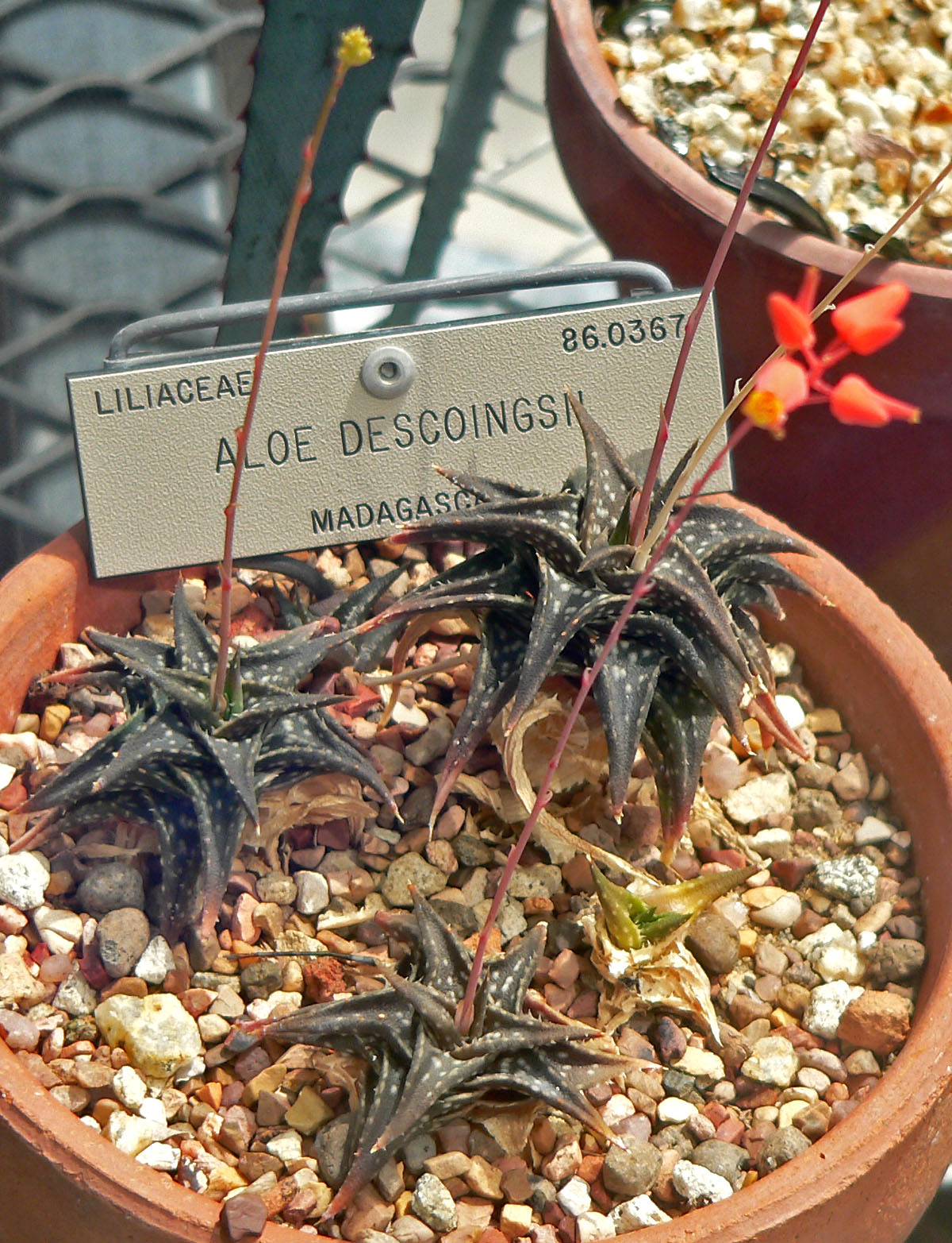 Aloe descoingsii at the University of California Botanical Garden, Berkeley, California